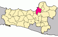 Demak county in Central Java province, Indonesia